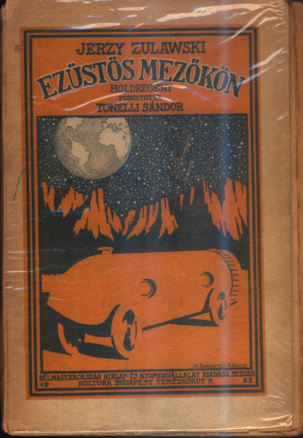 Cover of "Ezüstös mezőkön"(1922?), Hungarian version of "Na srebrnym globie"("On the Silver Globe") written by Polish author Jerzy Żuławski in 1903.